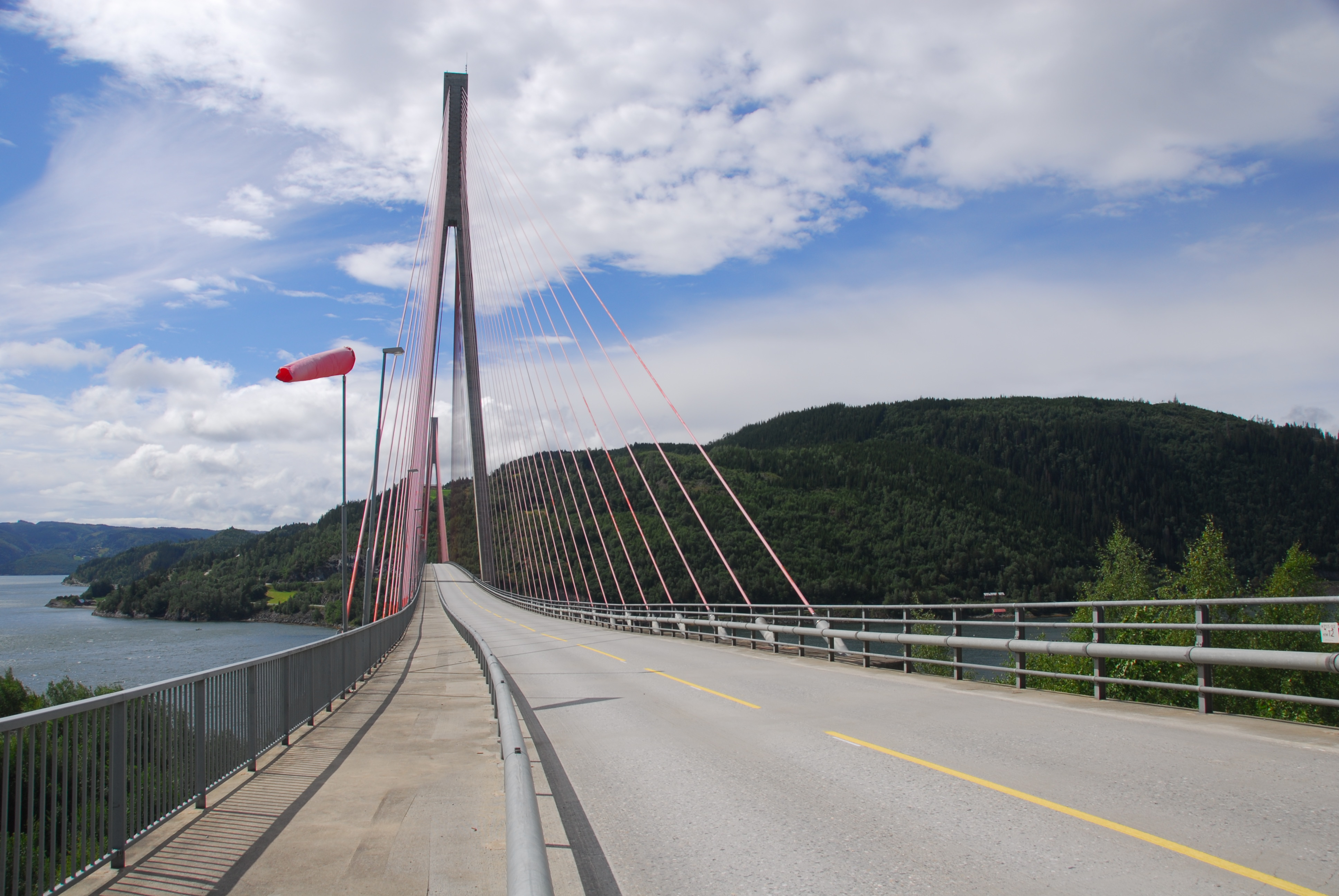 Skarnsund Bridge on Rv 755, Norway looking west.